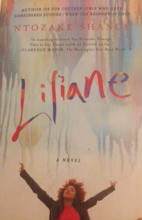 Book Cover of Liliane